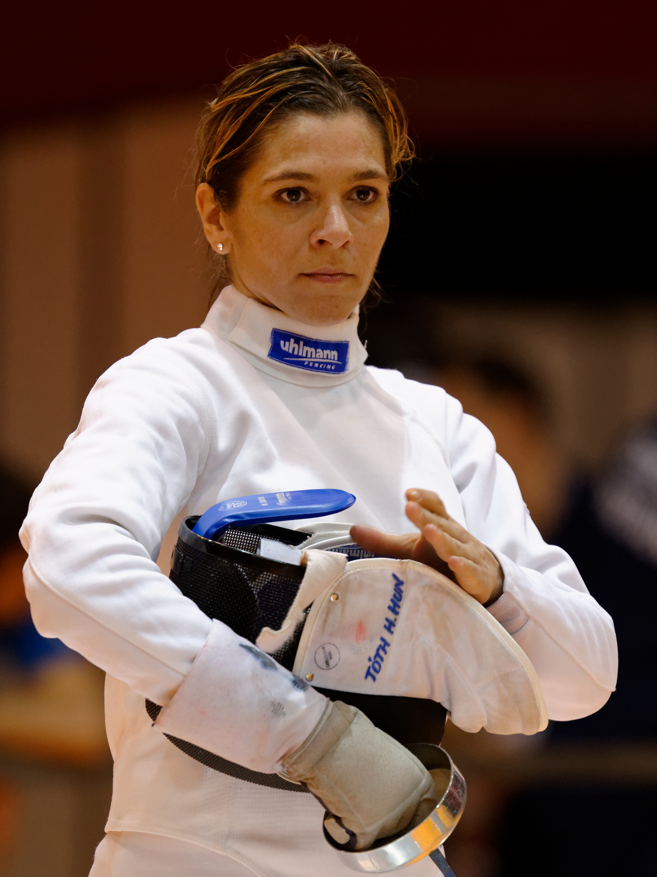 Hajnalka Tóth of Hungary during pools in the women's épée event of the European Fencing Championships at Rhénus Sport in Strasbourg on 8 June 2014.